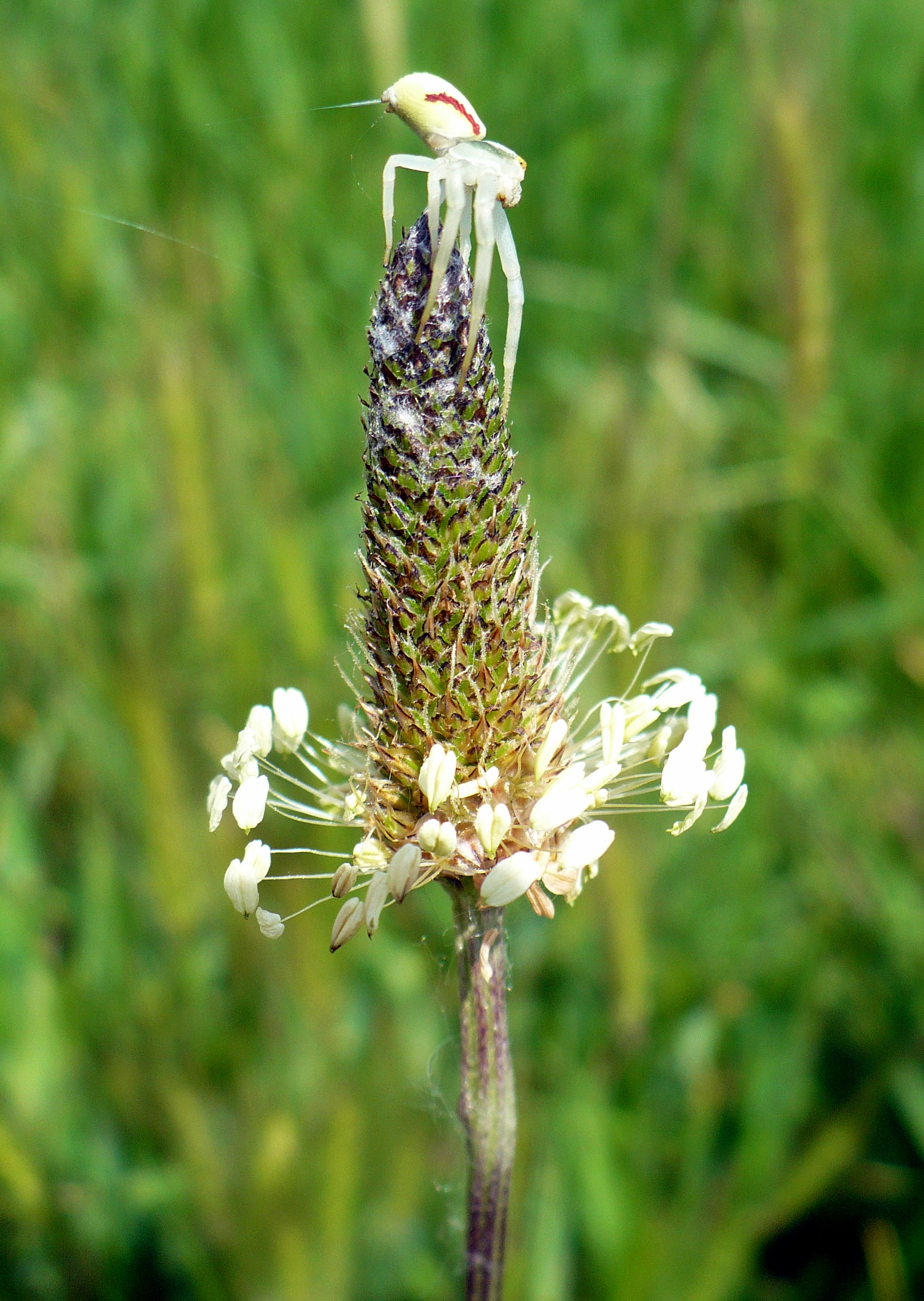 Misumena vatia on Plantago lanceolata (near Maglód)